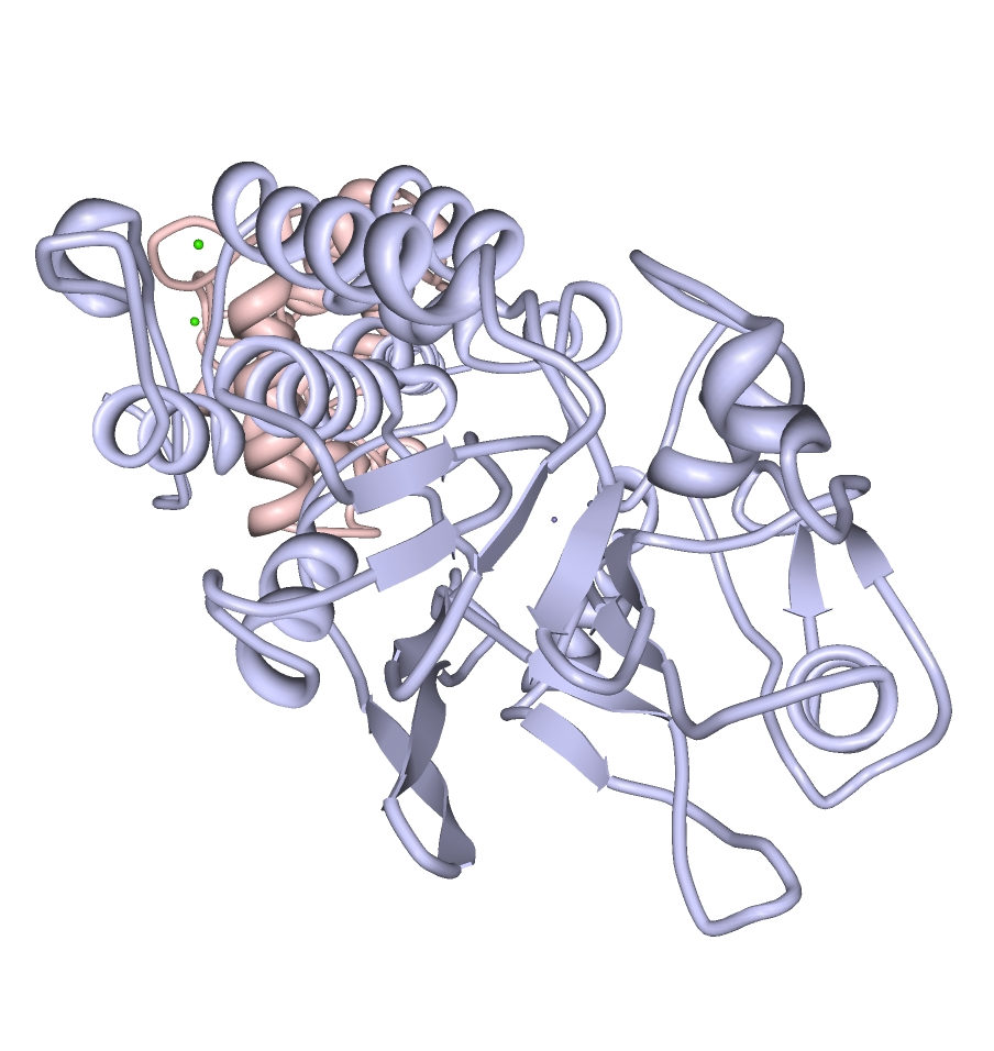 Estructura tridimensional de la calcineurina. Creado con ProteinWorkshop.